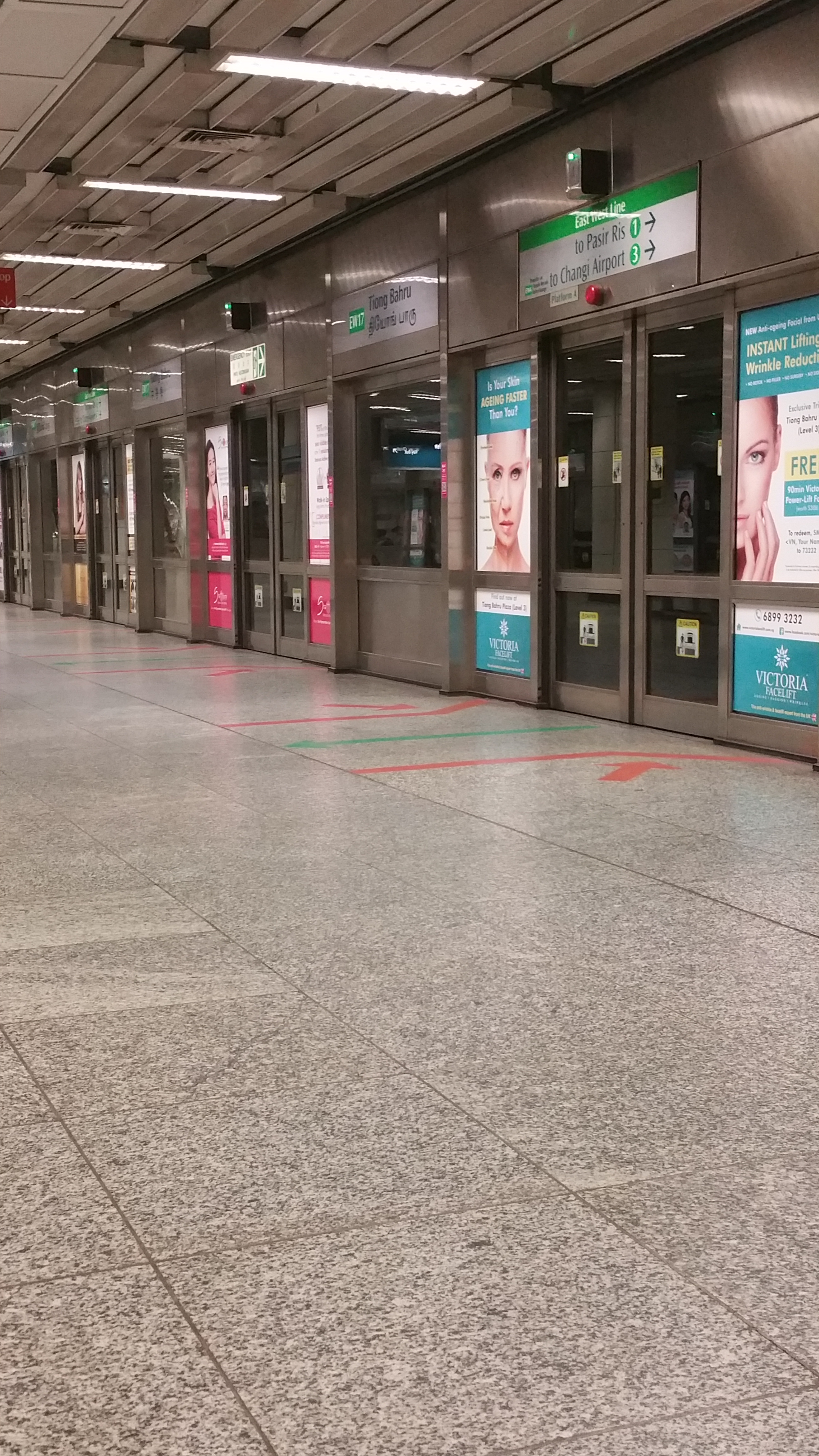 Tiong Bahru MRT station taken in 16 July 2016.